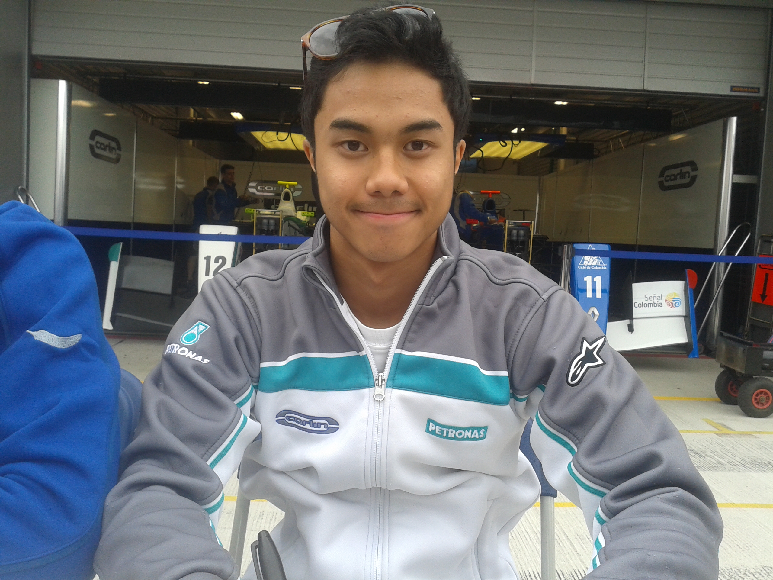 Jazeman Jaafar at Moscow Raceway, 22 June 2013